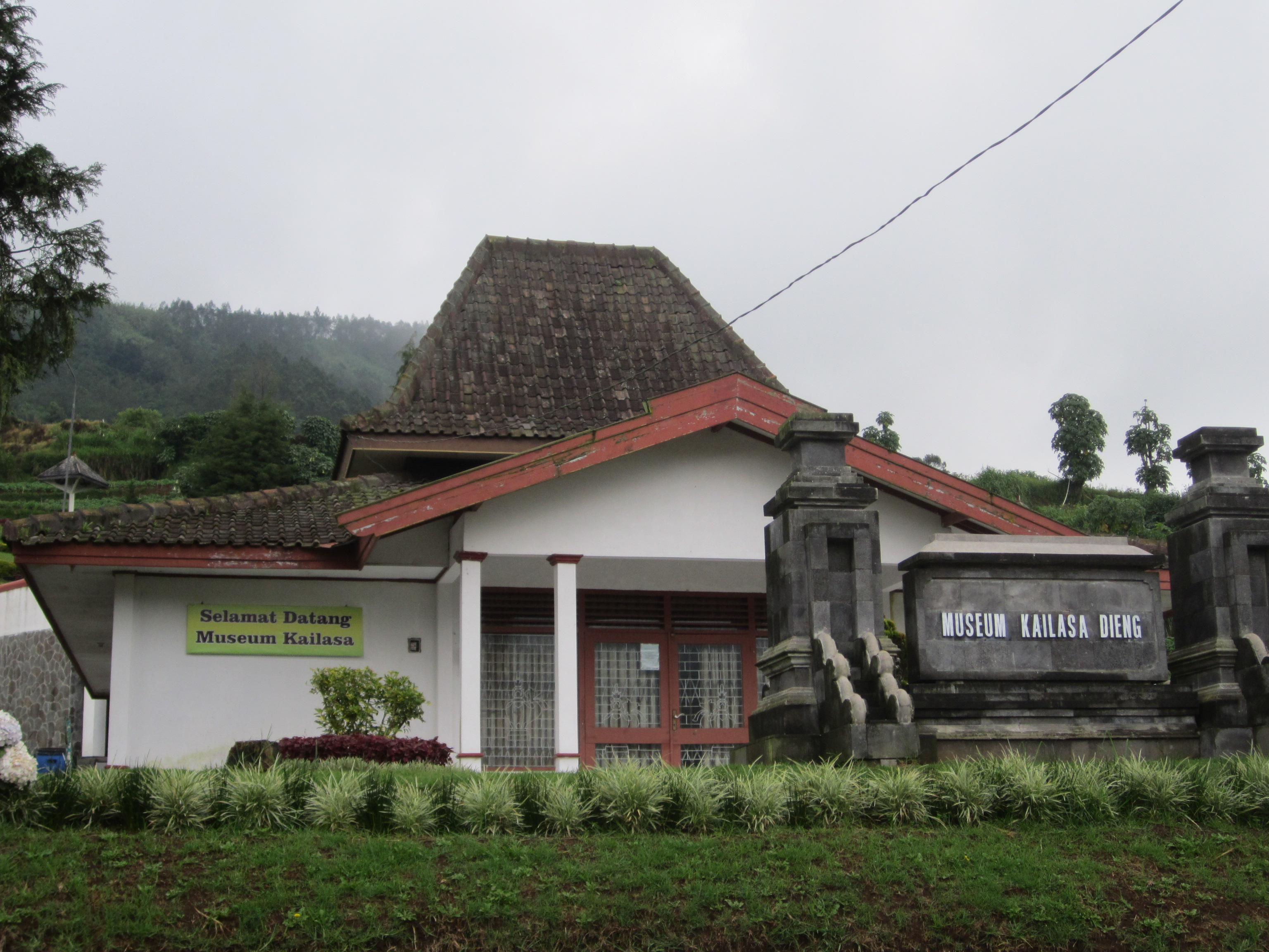 Museum Kailasa Dieng, Central Java. Located inside Dieng Plateu area.